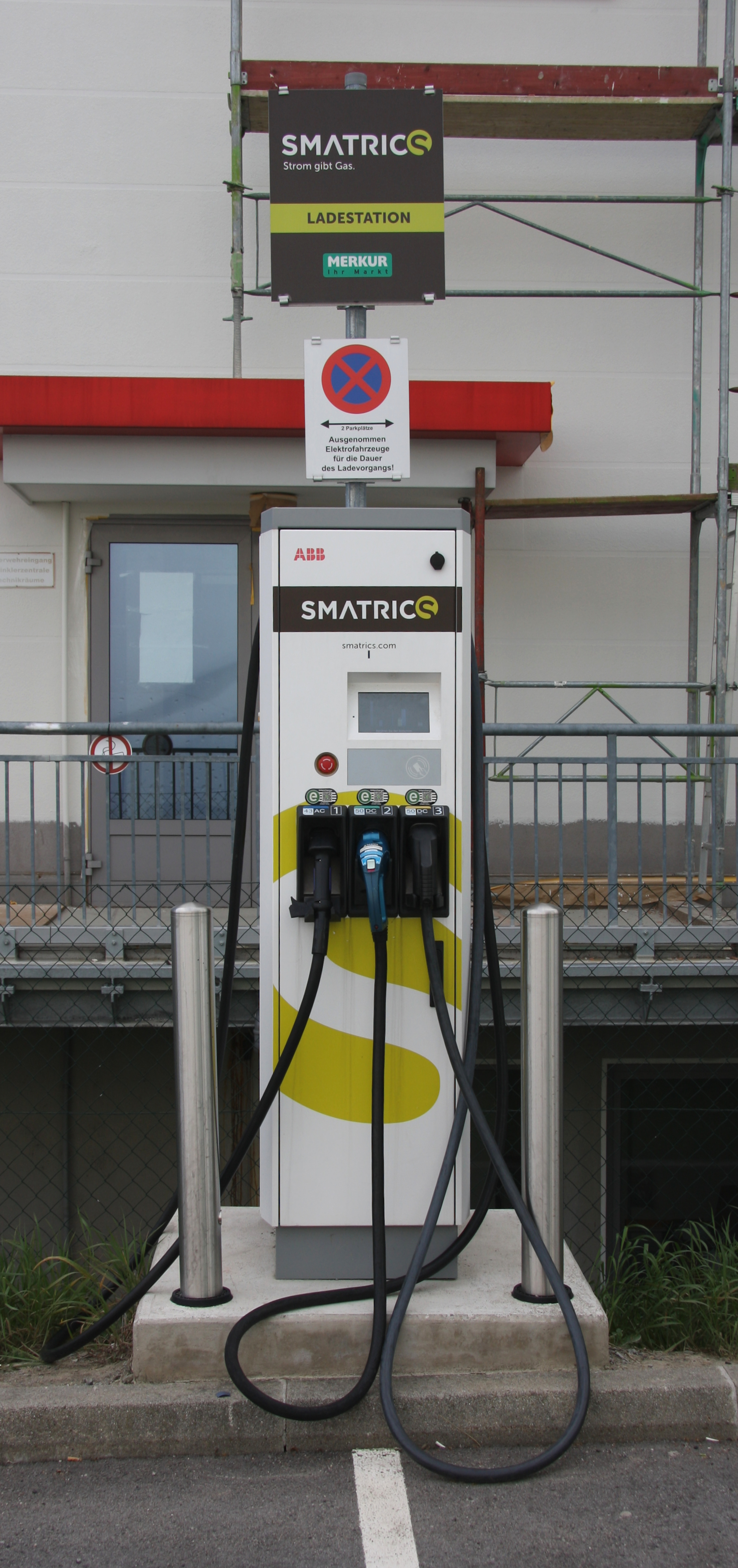 A charging station by SMATRICS at Mattersburgerstrasse 50, Eisenstadt, Burgenland, Austria